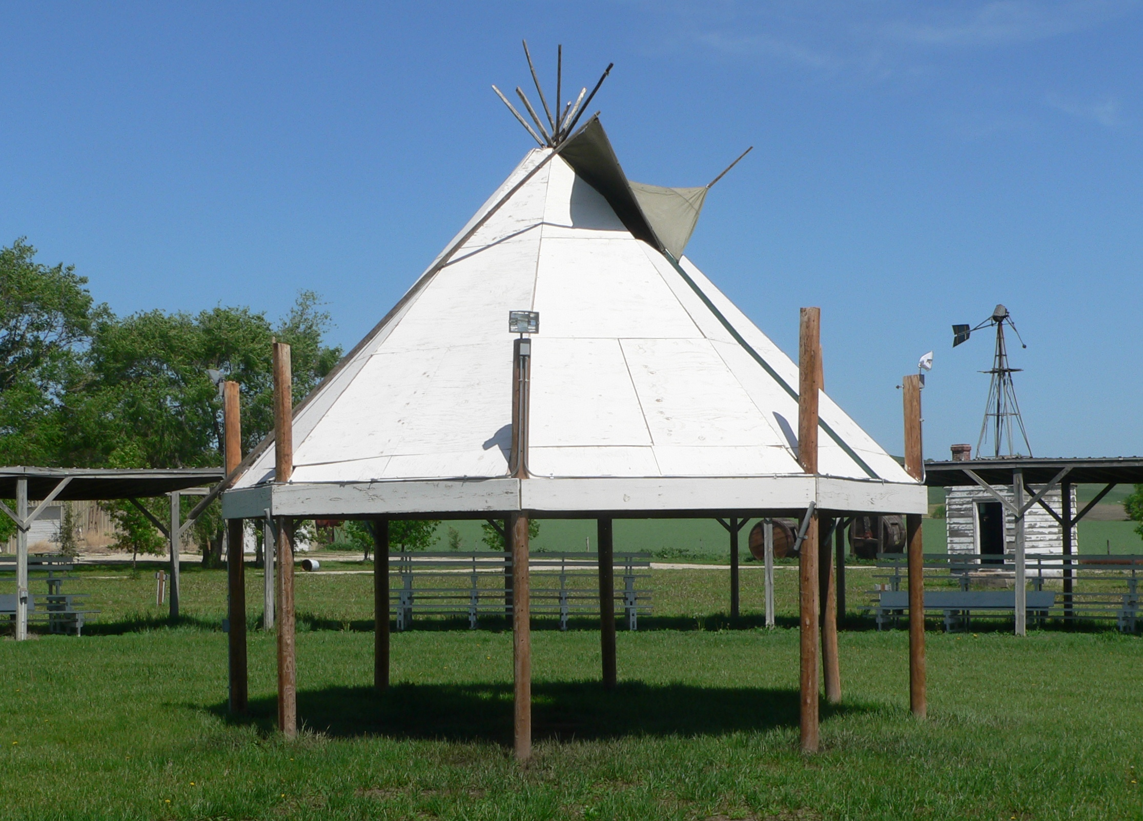 Pow Wow Circle, Ponca Tribe of Nebraska community buildings, located at 88915 521 Avenue, south of Niobrara in rural Knox County, Nebraska.